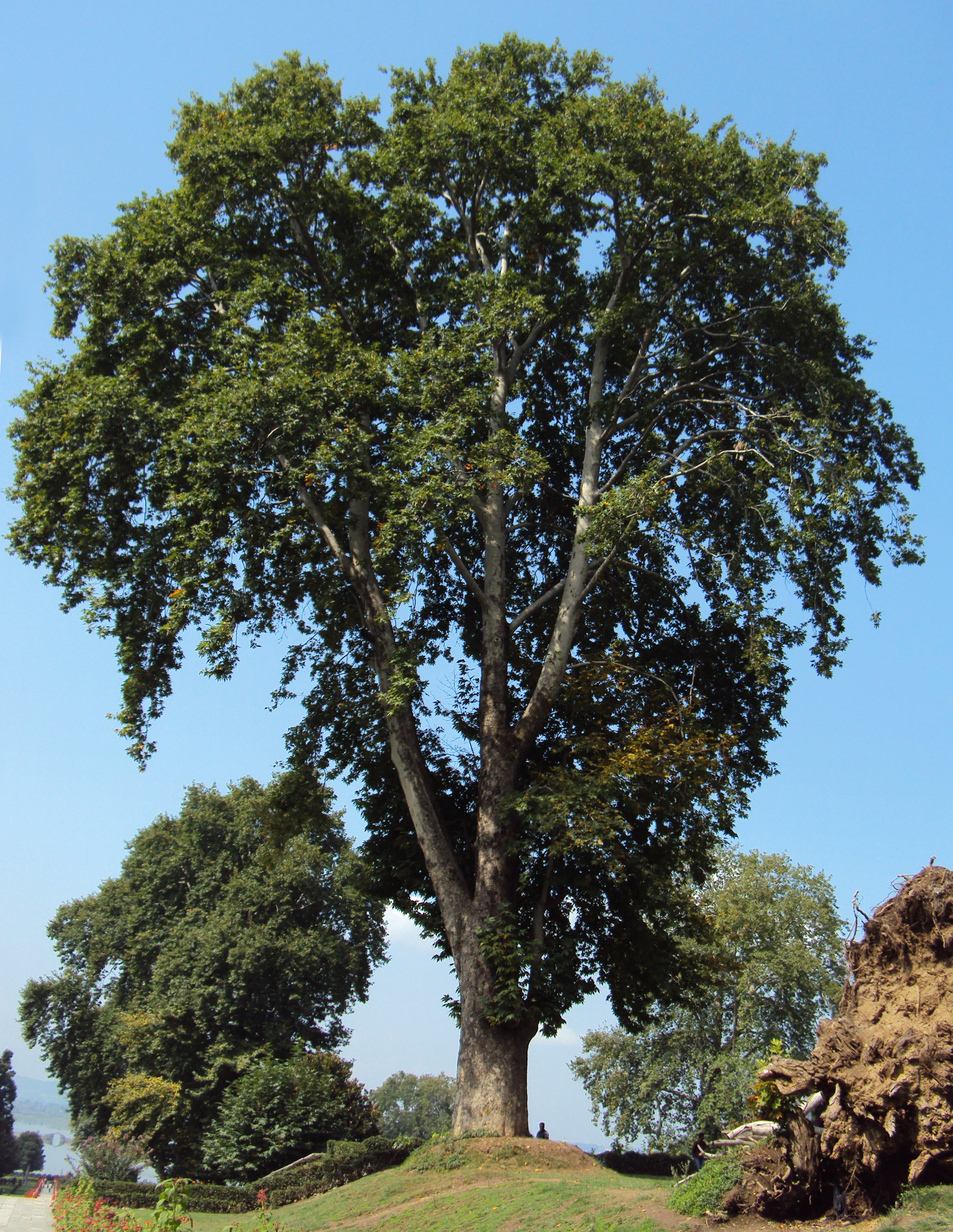 Platanus orientalis - ചിനാർ